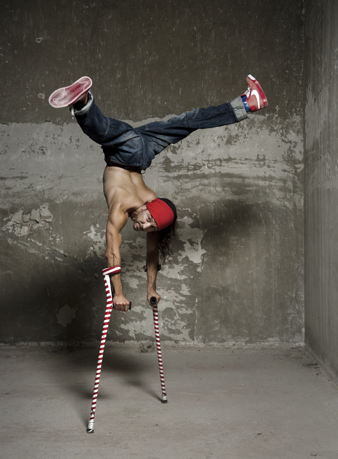 "Stix" (Dergin Tokmak) doing a handstand on crutches.